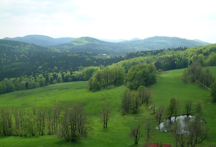 Nova Hut, Lusatian Mountains, Czech Republic